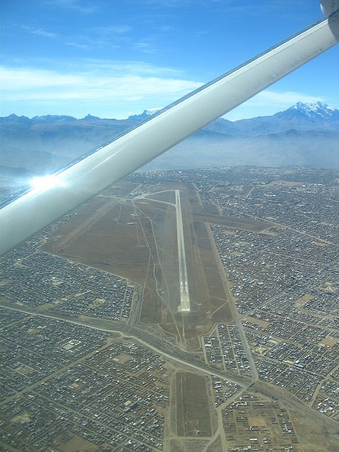 Flying out of La Paz to the Amazon basin, the other side of the Andes!